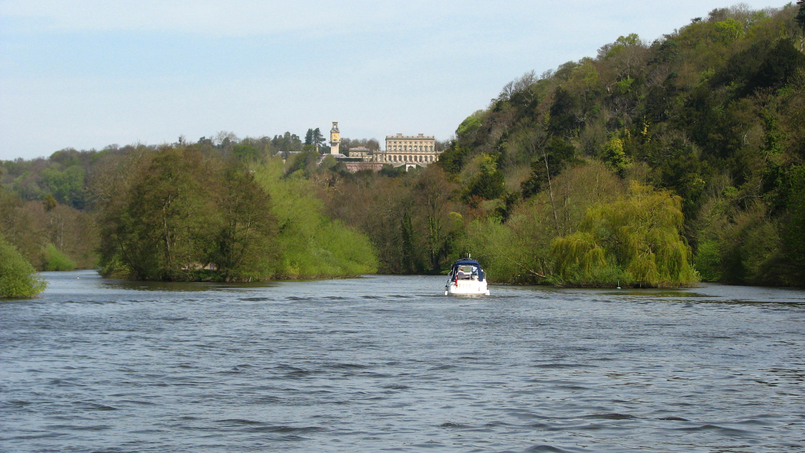 Bavin's Gulls (aka Sloe Grove Islands) on the reach of the River Thames known as Cliveden Deep above Boulter's Lock. Taken looking upstream with Cliveden House in the background